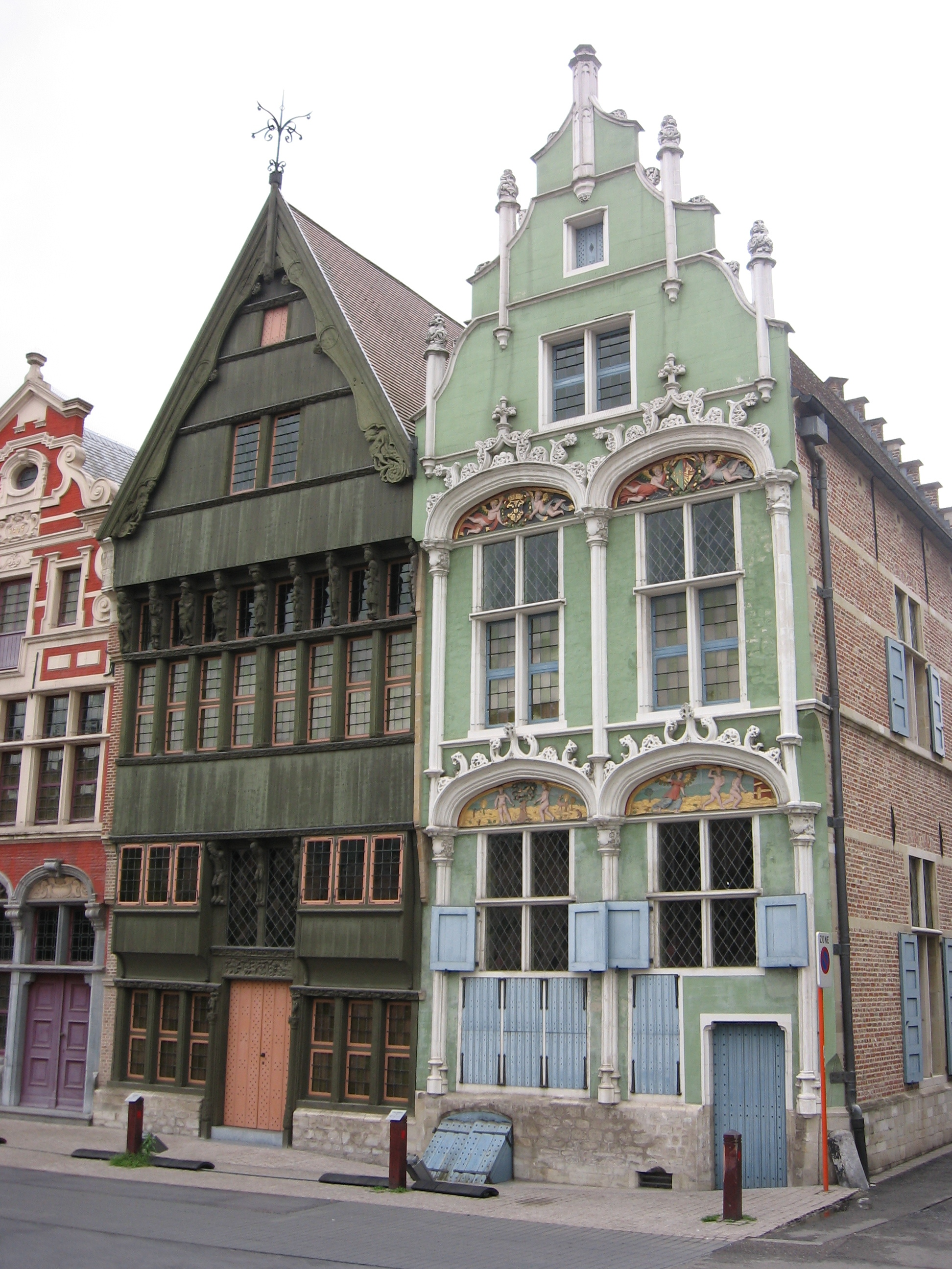 Den Duivel en t'Paradijs, Mechelen